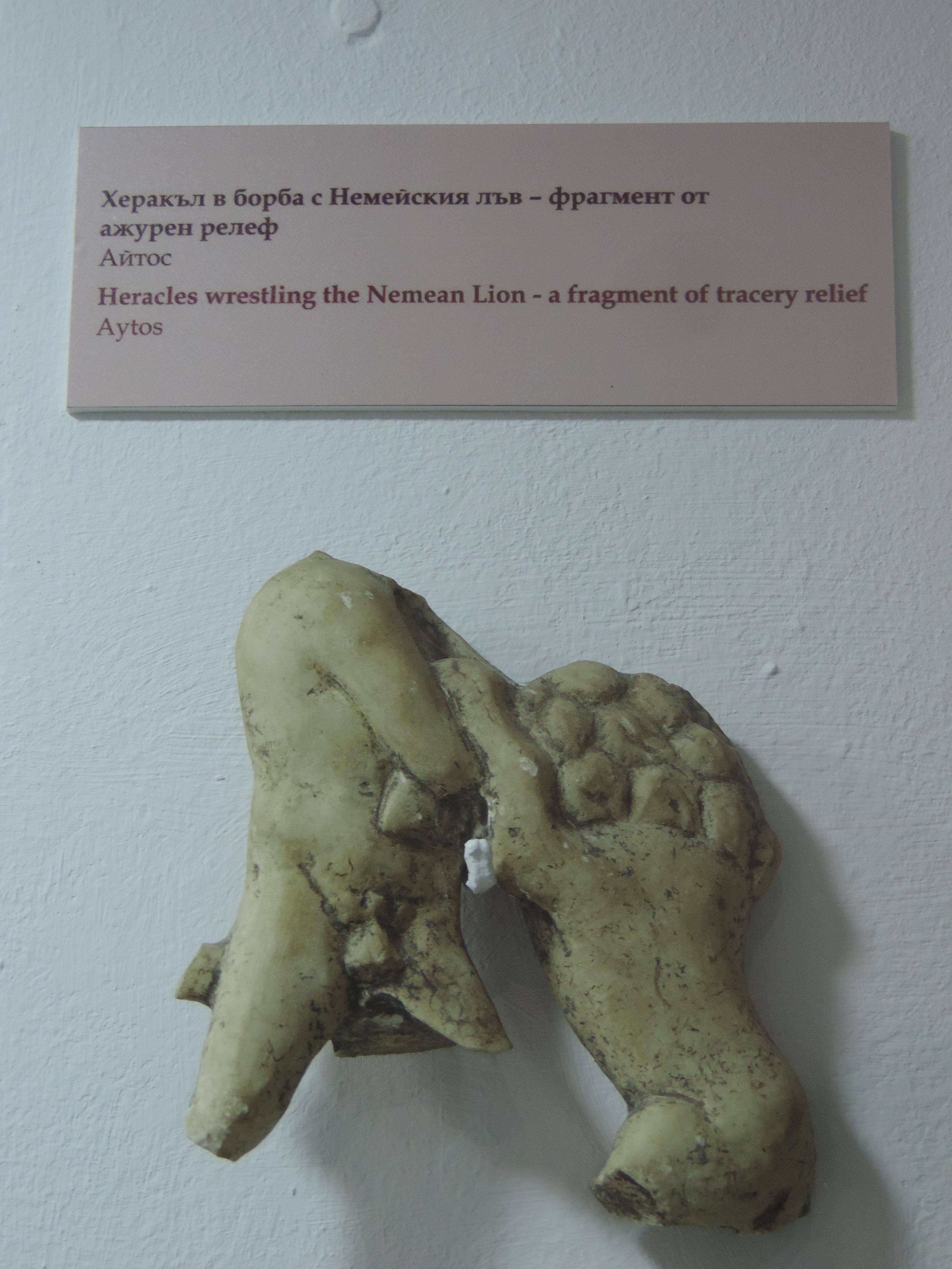 Heracles is fighting with the Nemean Lion. Exhibit of Burgas Archaeological Museum